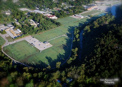 Anstaff Bank Soccer Complex features 8 fields to accommodate youth and High School Soccer. Harrison, Arkansas